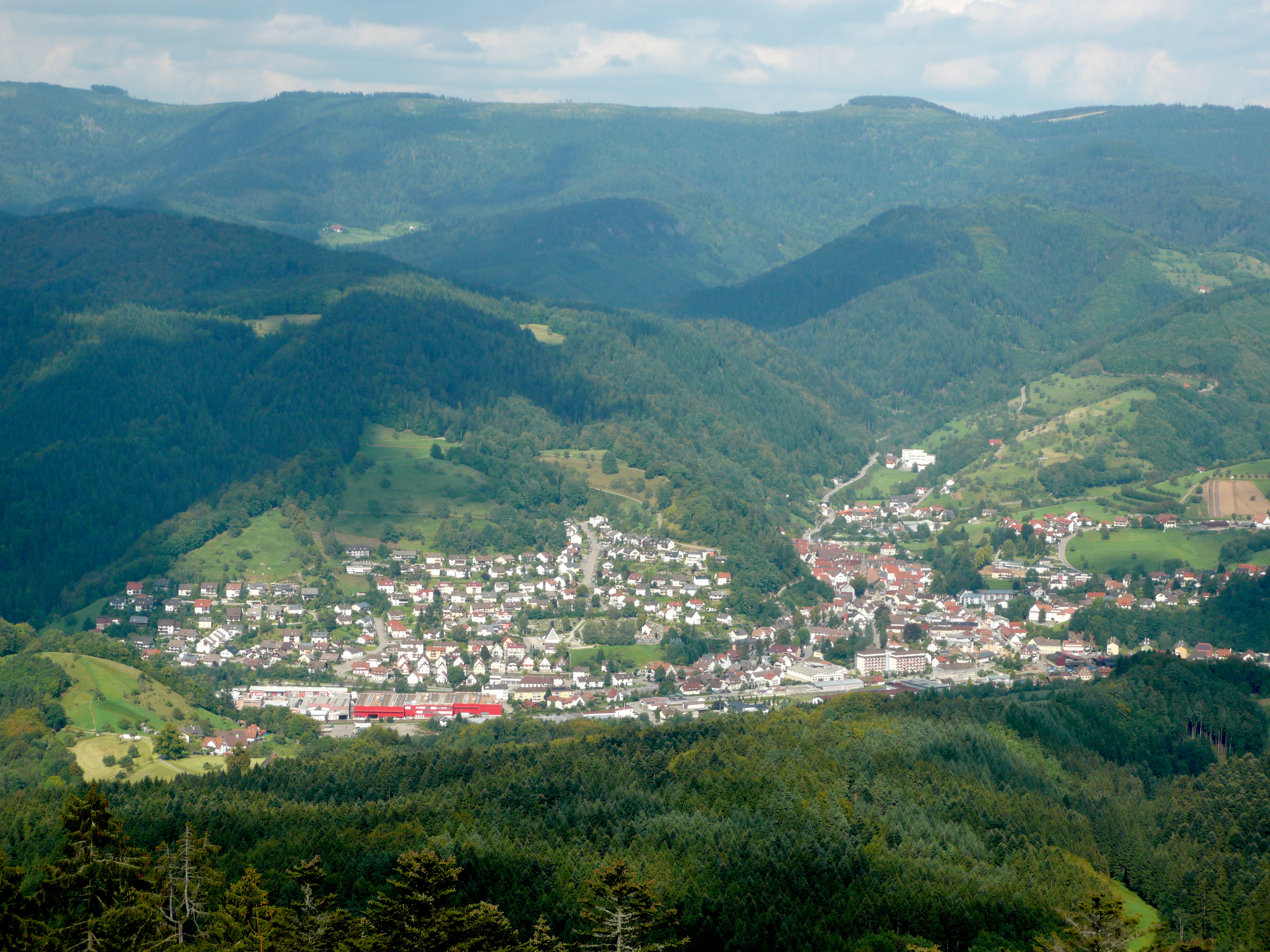 Town of Oppenau in Black forest